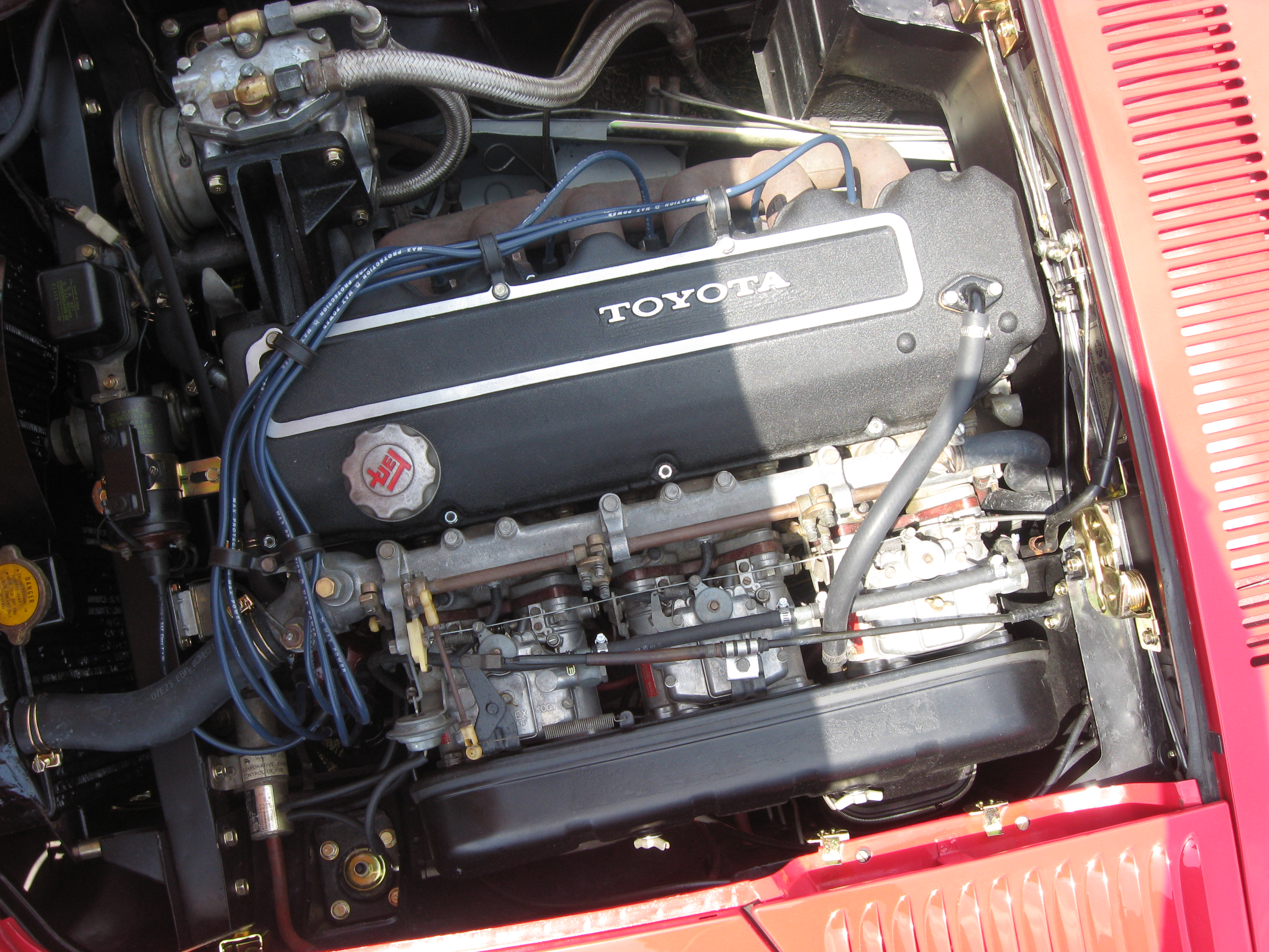 Toyota 2000GT MF12 2M SOHC 2.3L Engine